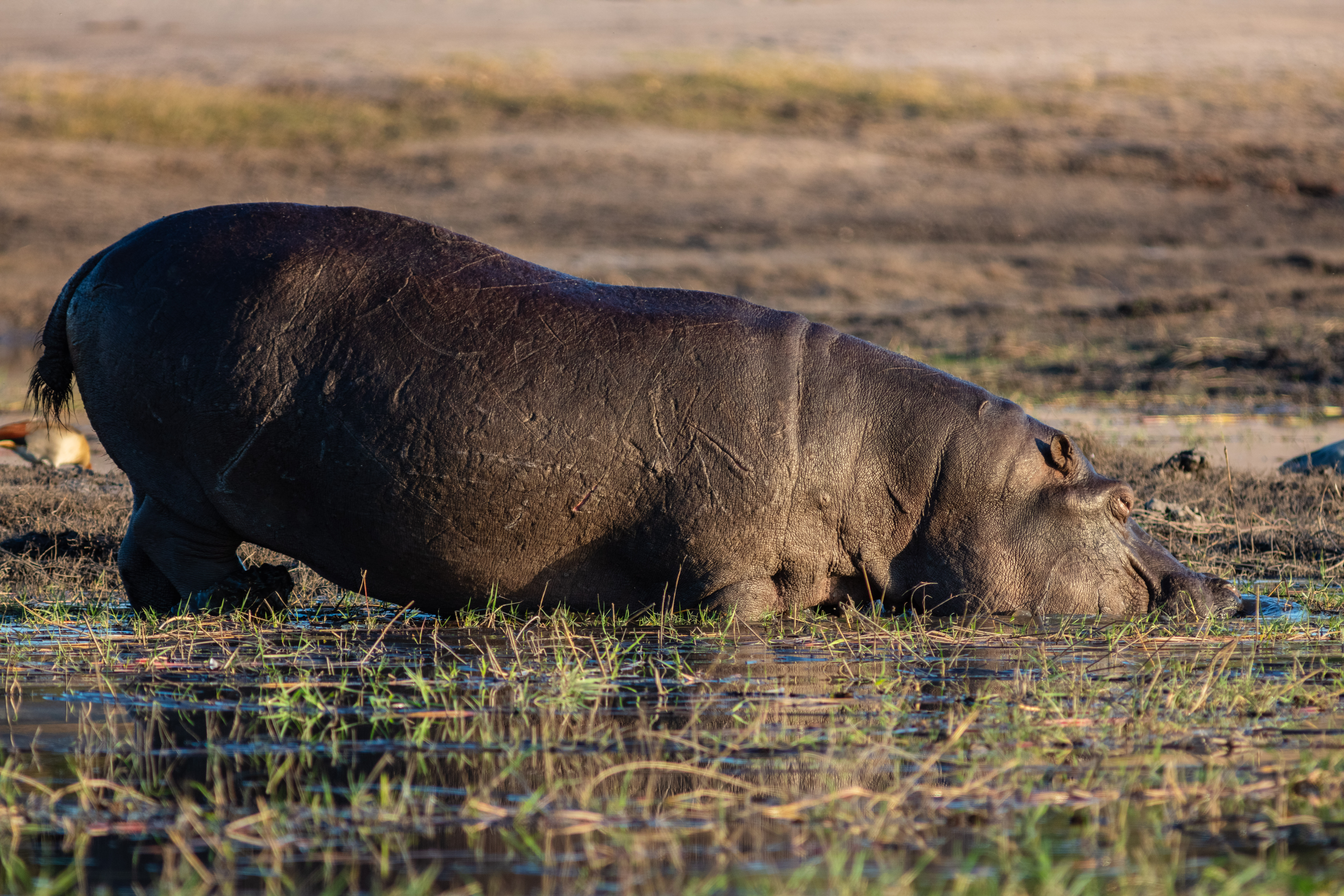 Hippo (Hippopotamus amphibius), Chobe National Park, Botswana